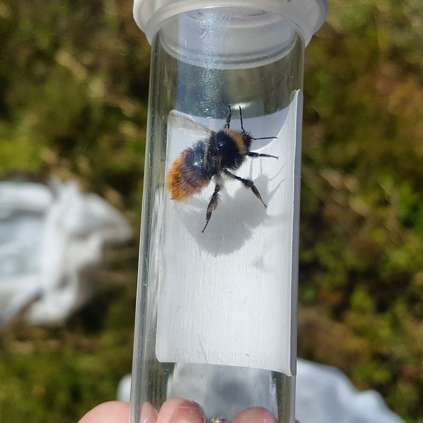 Bombus monticola in sample tube, found in Dartmoor National Park during research with University of Plymouth.